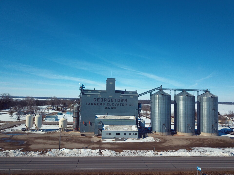 Georgetown Farmers Elevator